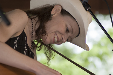 Gillian Welch at Merlfest, Wilkesboro, NC, April 2006.